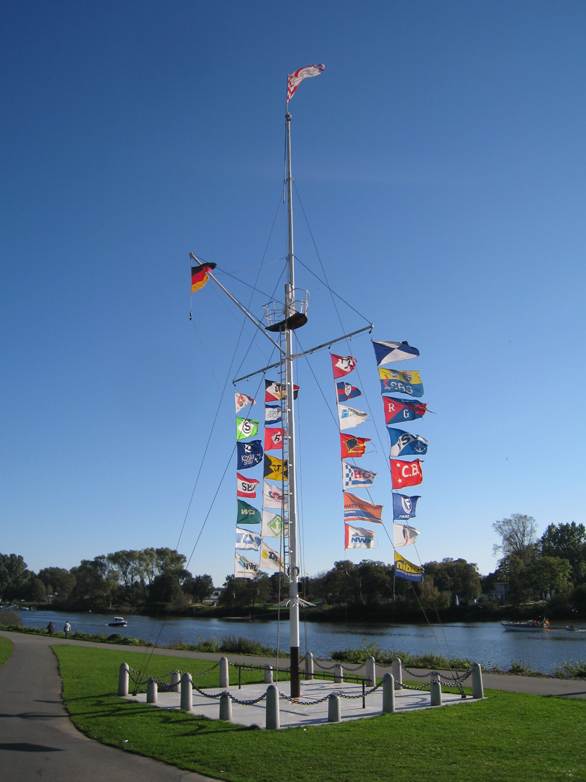 Flagstaff at the Osterdeich in Bremen, Germany. Placed in 1965 by the Binnenschifferverein Bremen e.V. (“The association of inland shipping companies of Bremen”) at the Weser river next to the Altenwall.